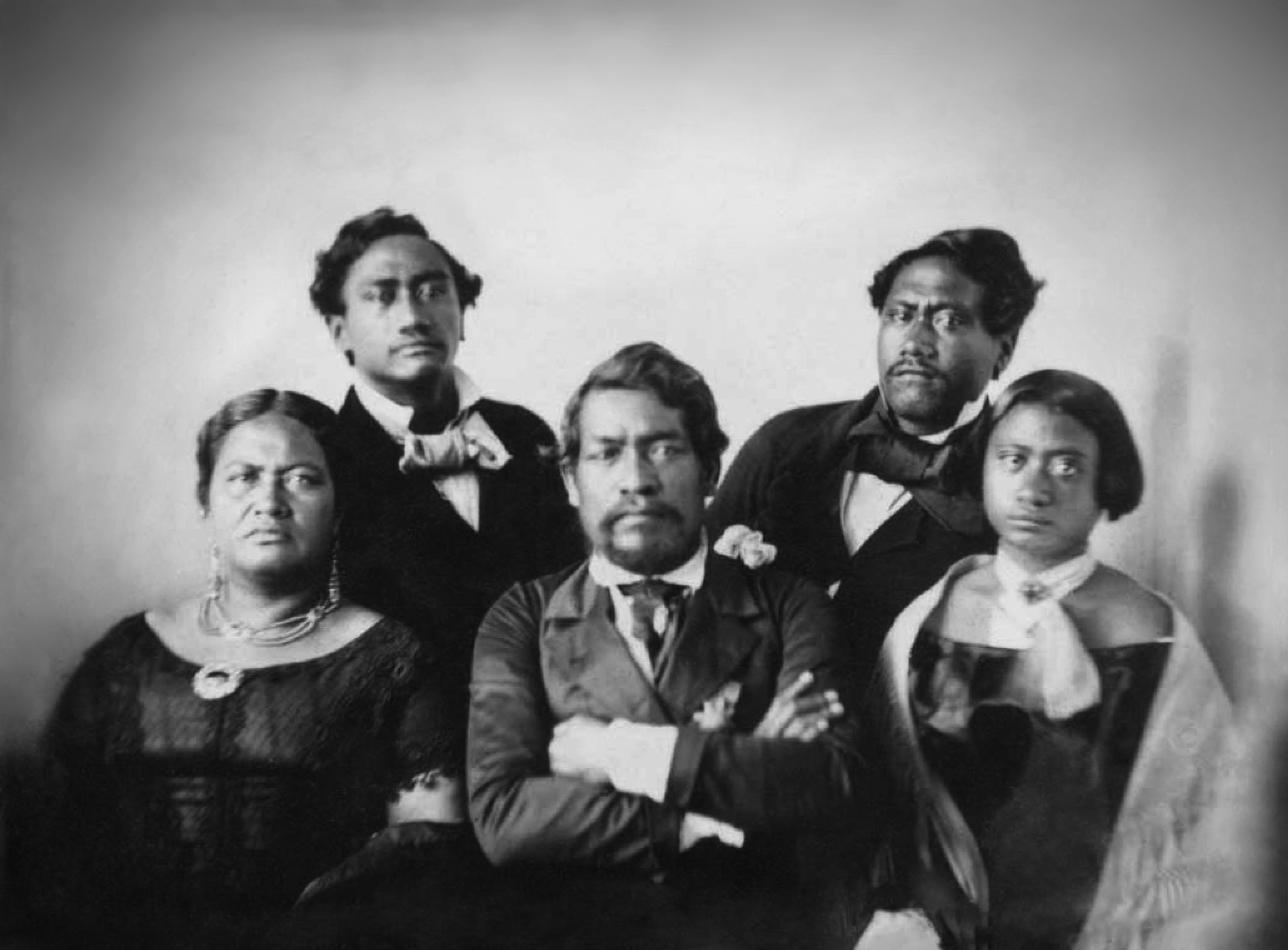 "The Kamehameha Royal Family." Daguerreotype, Hugo Stangenwald, ca. 1853. Gathered here are Kamehameha III (center) and his wife, Queen Kalama (left); Kamehameha IV (left rear), Kamehameha V (right rear) and their sister, Victoria Kamāmalu (right).